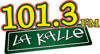 KJFA-FM